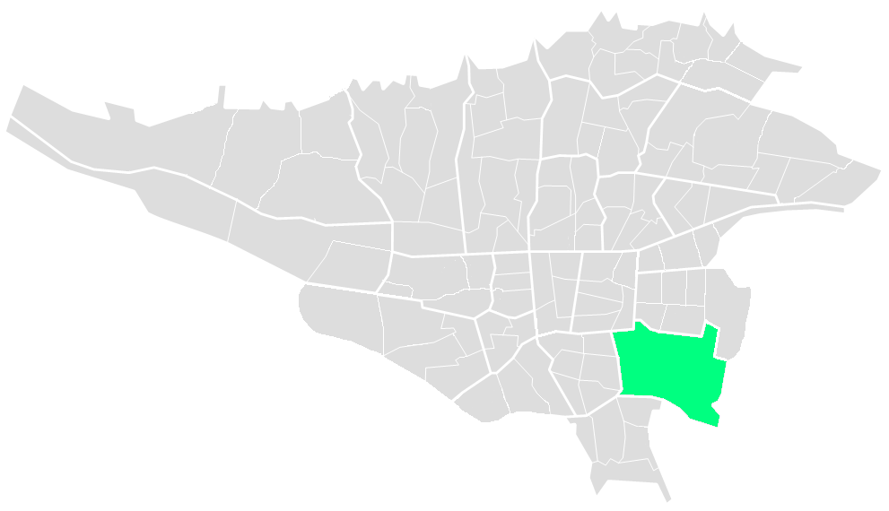 Region 15 of Tehran